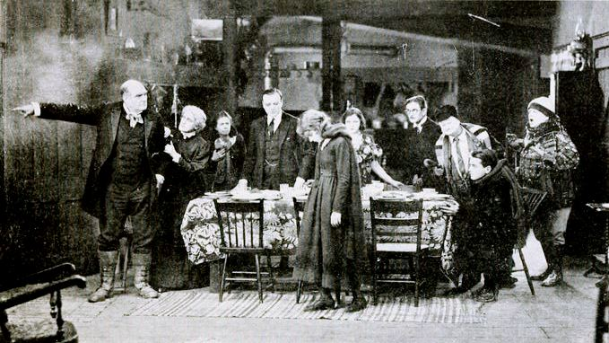 Still from the American film Way Down East (1920) where Lillian Gish's character Anna is sent out into the snow storm. With (from left) Burr McIntosh, Kate Bruce, Lowell Sherman, Mary Hay, Creighton Hale, George Neville, Richard Barthelmess (seated), and an unidentified actor. On page 79 of Peter Milne, Motion Picture Directing; The Facts and Theories of the Newest Art (1922).